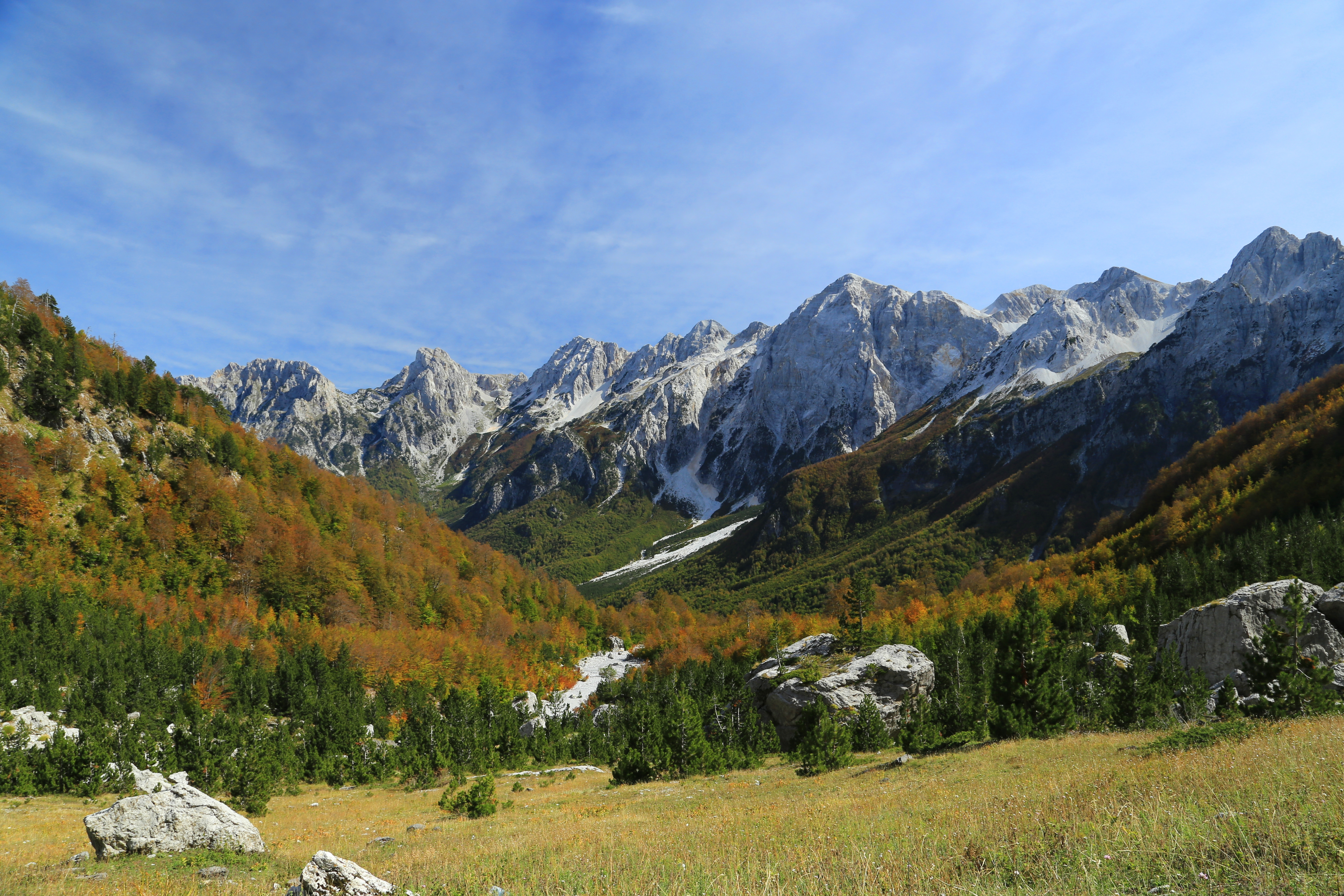 Photo from the Valbonë Valley National Park Taken on the path from Valbona to Theth